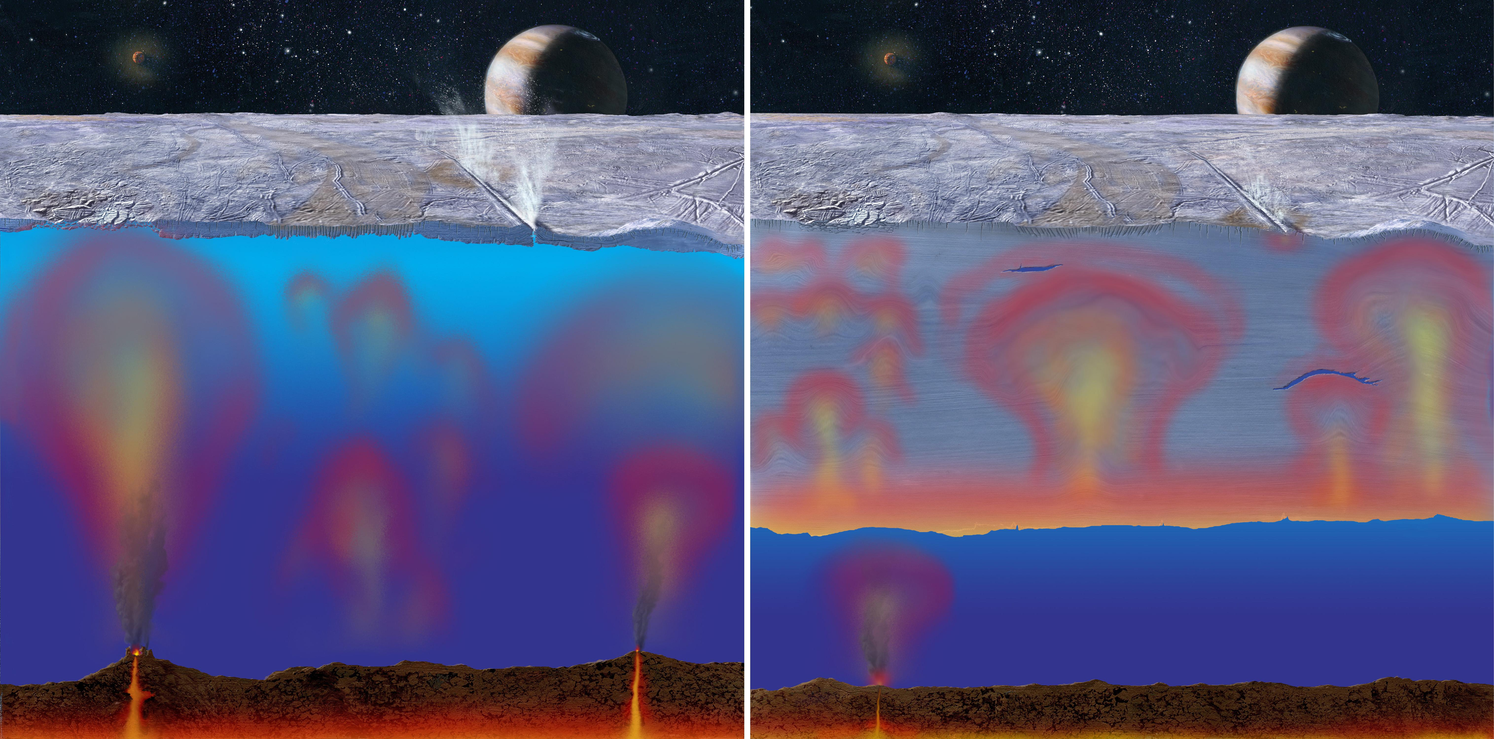 Scientists are all but certain that Europa has an ocean underneath its icy surface, but they do not know how thick this ice might be. This artist concept illustrates two possible cut-away views through Europa's ice shell. In both, heat escapes, possibly volcanically, from Europa's rocky mantle and is carried upward by buoyant oceanic currents. If the heat from below is intense and the ice shell is thin enough (left), the ice shell can directly melt, causing what are called "chaos" on Europa, regions of what appear to be broken, rotated and tilted ice blocks. On the other hand, if the ice shell is sufficiently thick (right), the less intense interior heat will be transferred to the warmer ice at the bottom of the shell, and additional heat is generated by tidal squeezing of the warmer ice. This warmer ice will slowly rise, flowing as glaciers do on Earth, and the slow but steady motion may also disrupt the extremely cold, brittle ice at the surface. Europa is no larger than Earth's moon, and its internal heating stems from its eccentric orbit about Jupiter, seen in the distance. As tides raised by Jupiter in Europa's ocean rise and fall, they may cause cracking, additional heating and even venting of water vapor into the airless sky above Europa's icy surface.